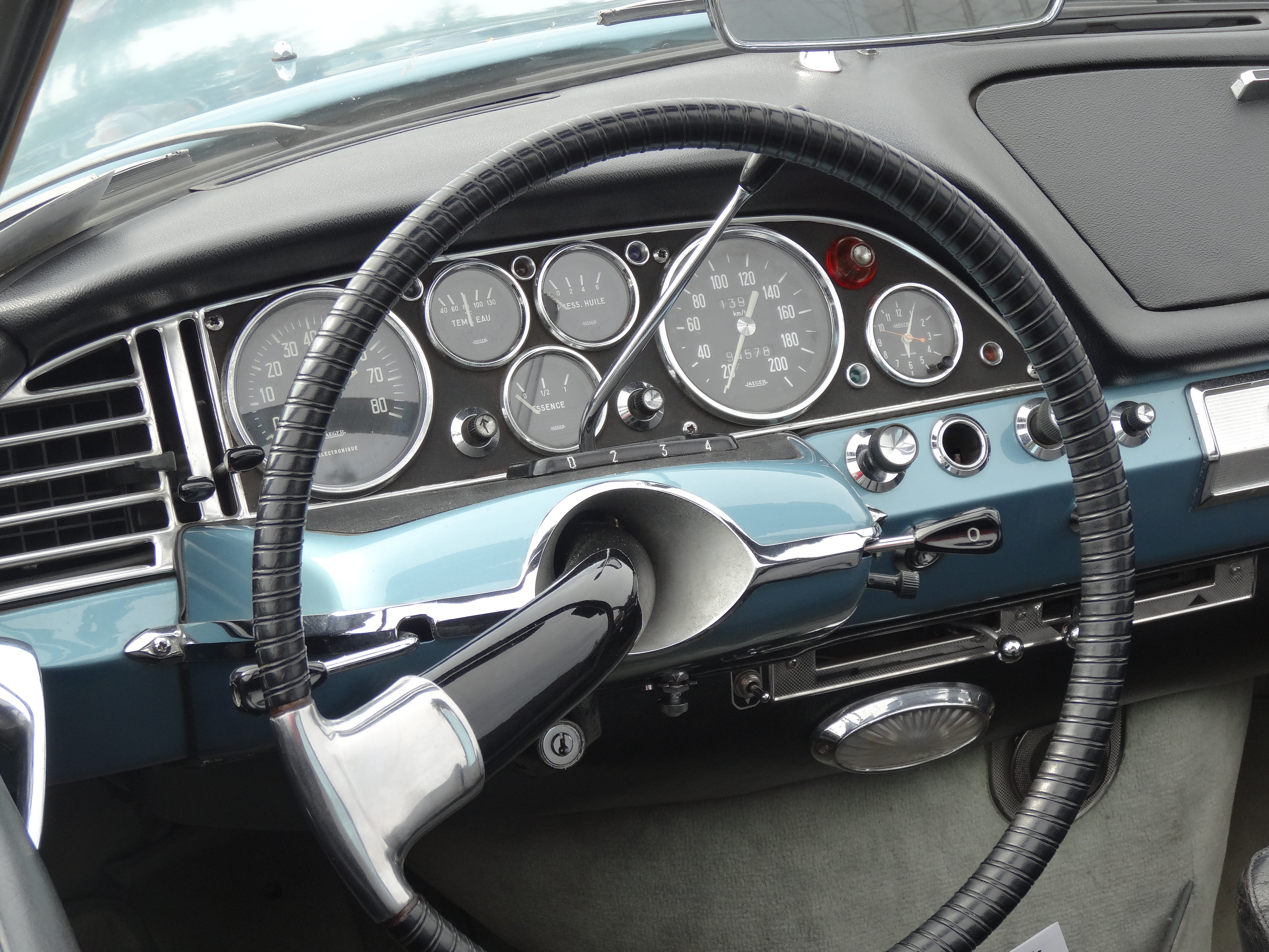 Dashboard of a Citroën DS cabriolet